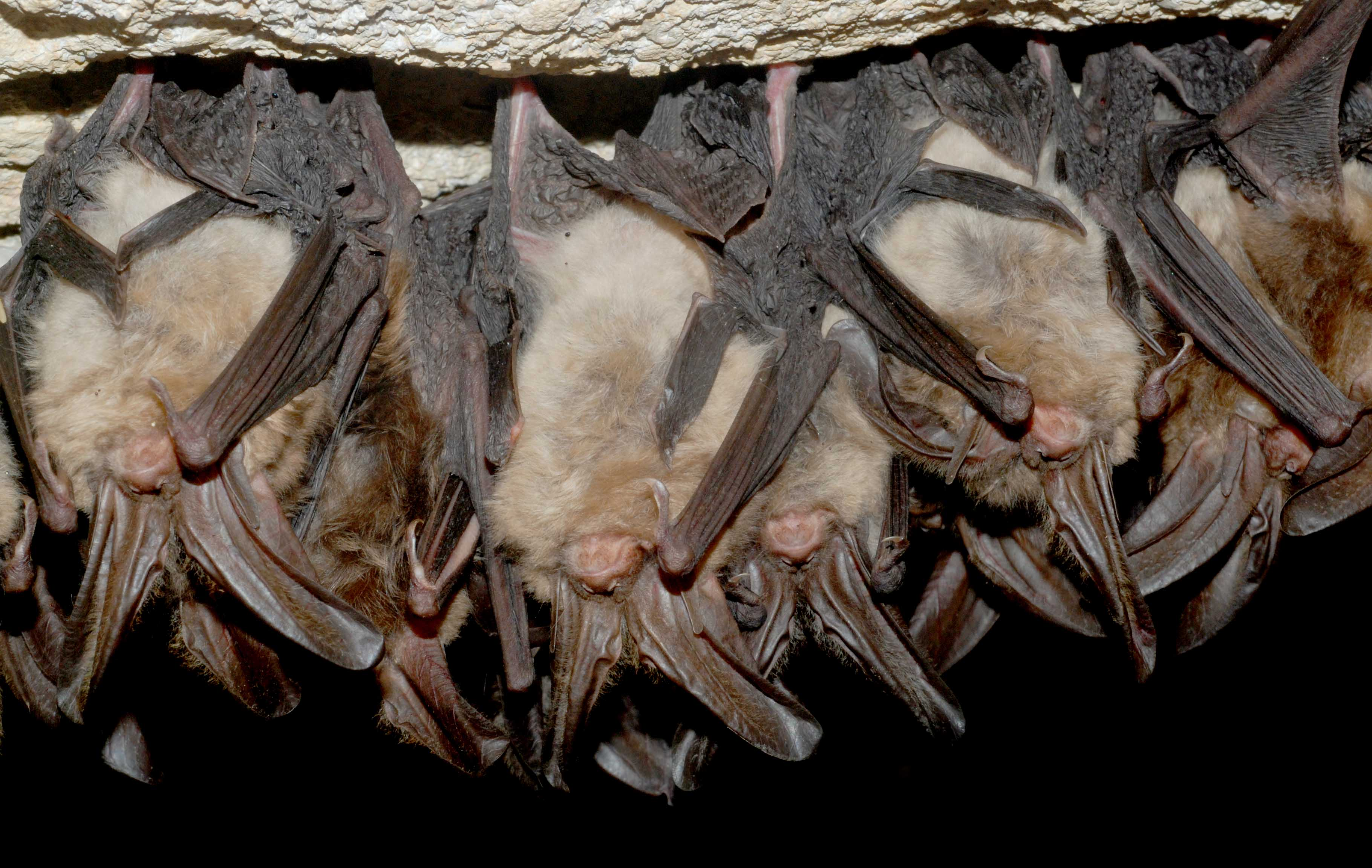 Cluster of hibernating healthy Virginia big-eared bats in Pendleton County, WV Credit: Craig Stihler, WVDNR